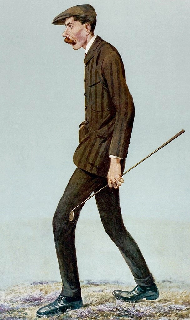 Caricature of James Braid, Scottish professional golfer. Caption read "Jimmy".